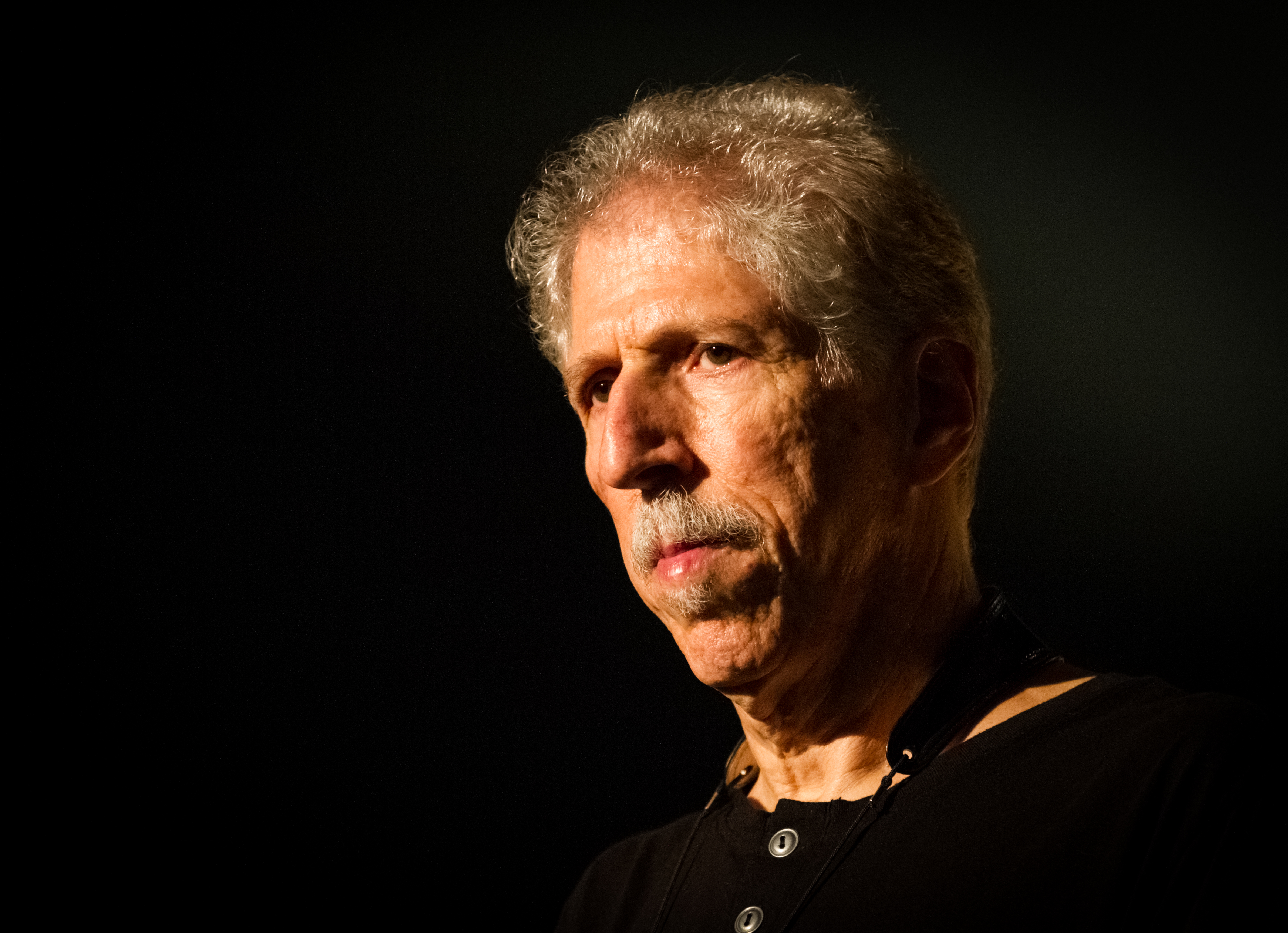 Bob Mintzer with Yellowjackets - Leverkusener Jazztage 2015